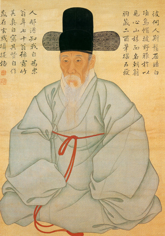 Self-portrait of Kang Sehwang, representative painter in literal artistic way, calligrapher and art critic, This painting is held by National Museum of Korea